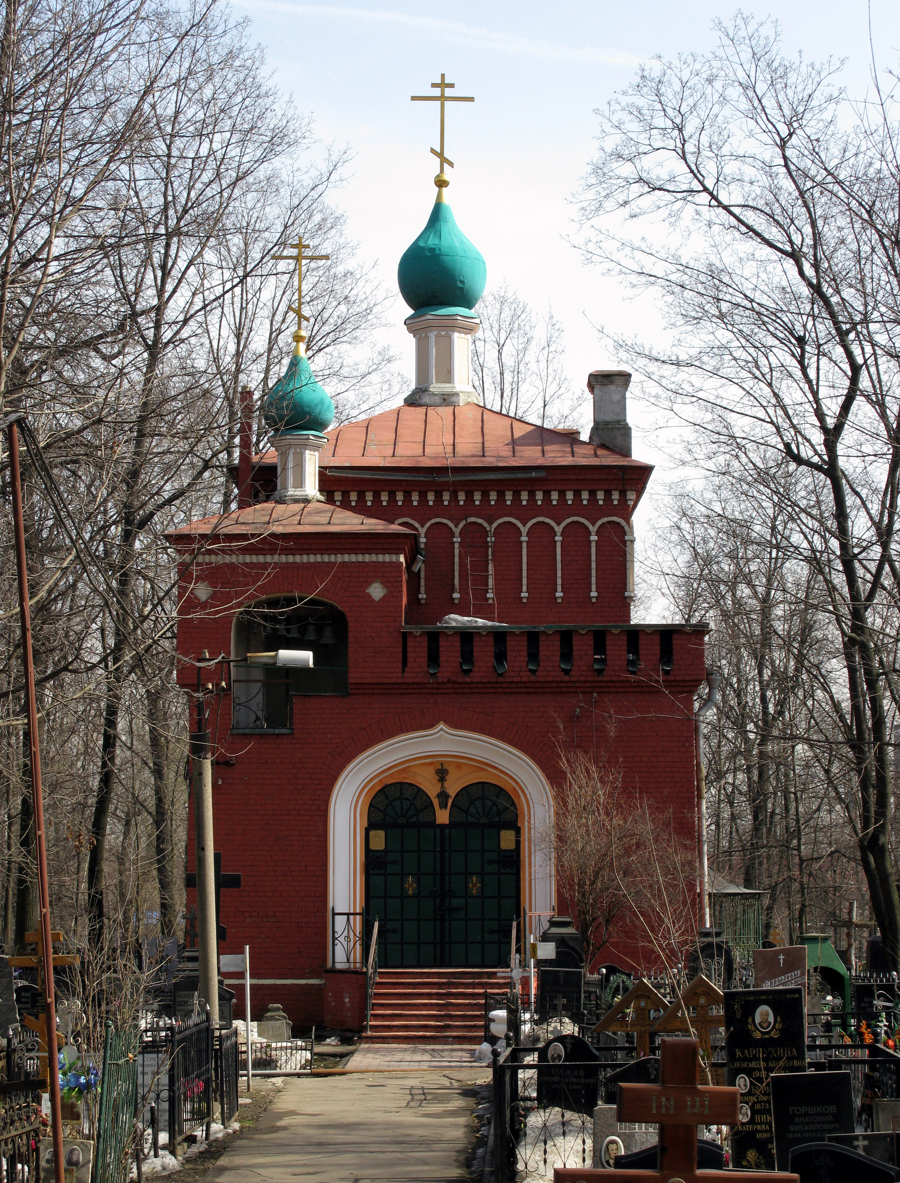 Chapel of Saint Simeon, bishop of the Persian at Piatnitskoe Cemetery in Moscow